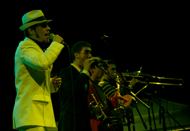 Live shot of the Pannonia Allstars Ska Orchestra aka. PASO taken at LB27 Reggae Camp 2008 (Százhalombatta, Hungary)